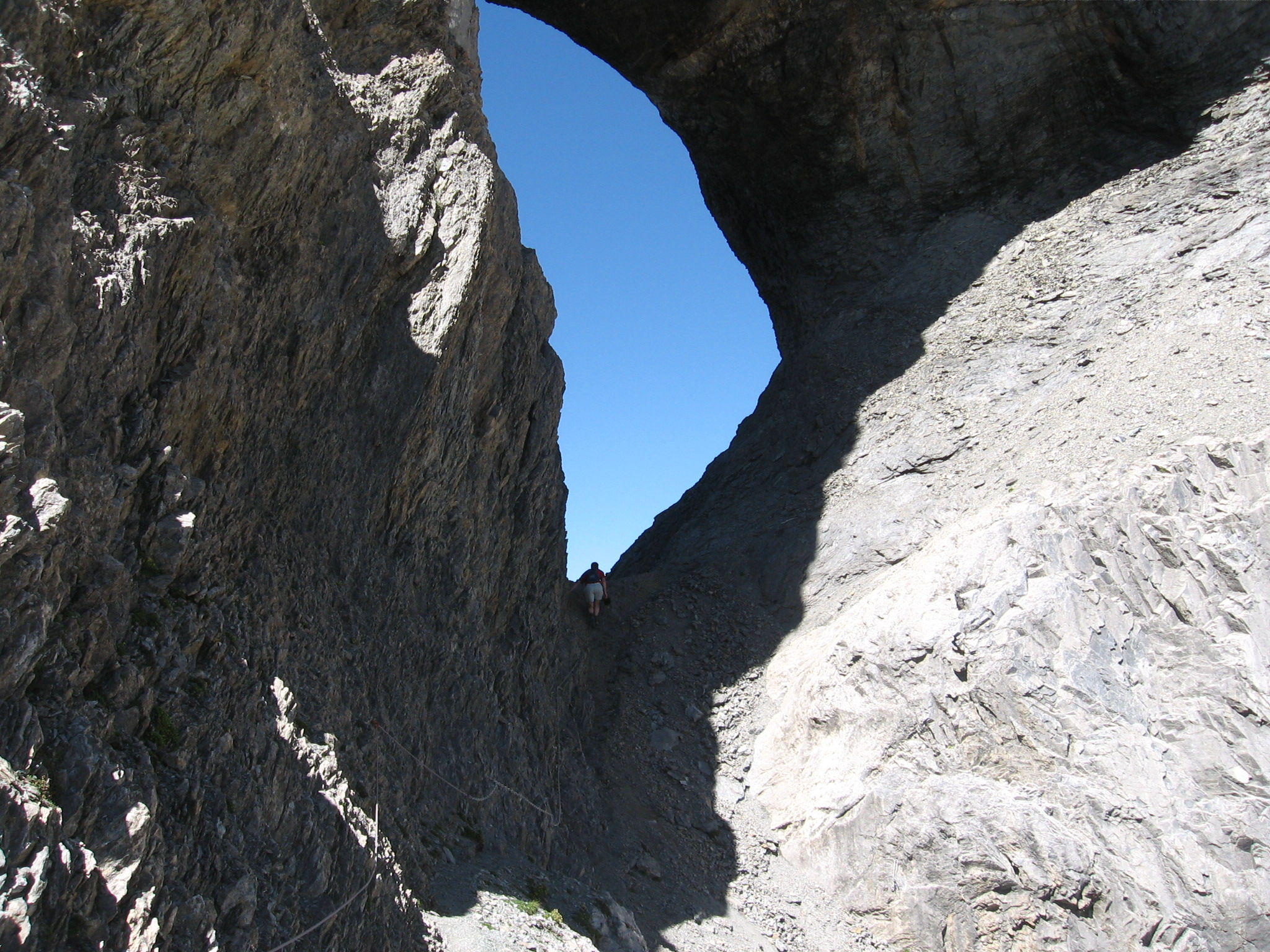 Martinsloch being reached by a person which gives an impression of its size